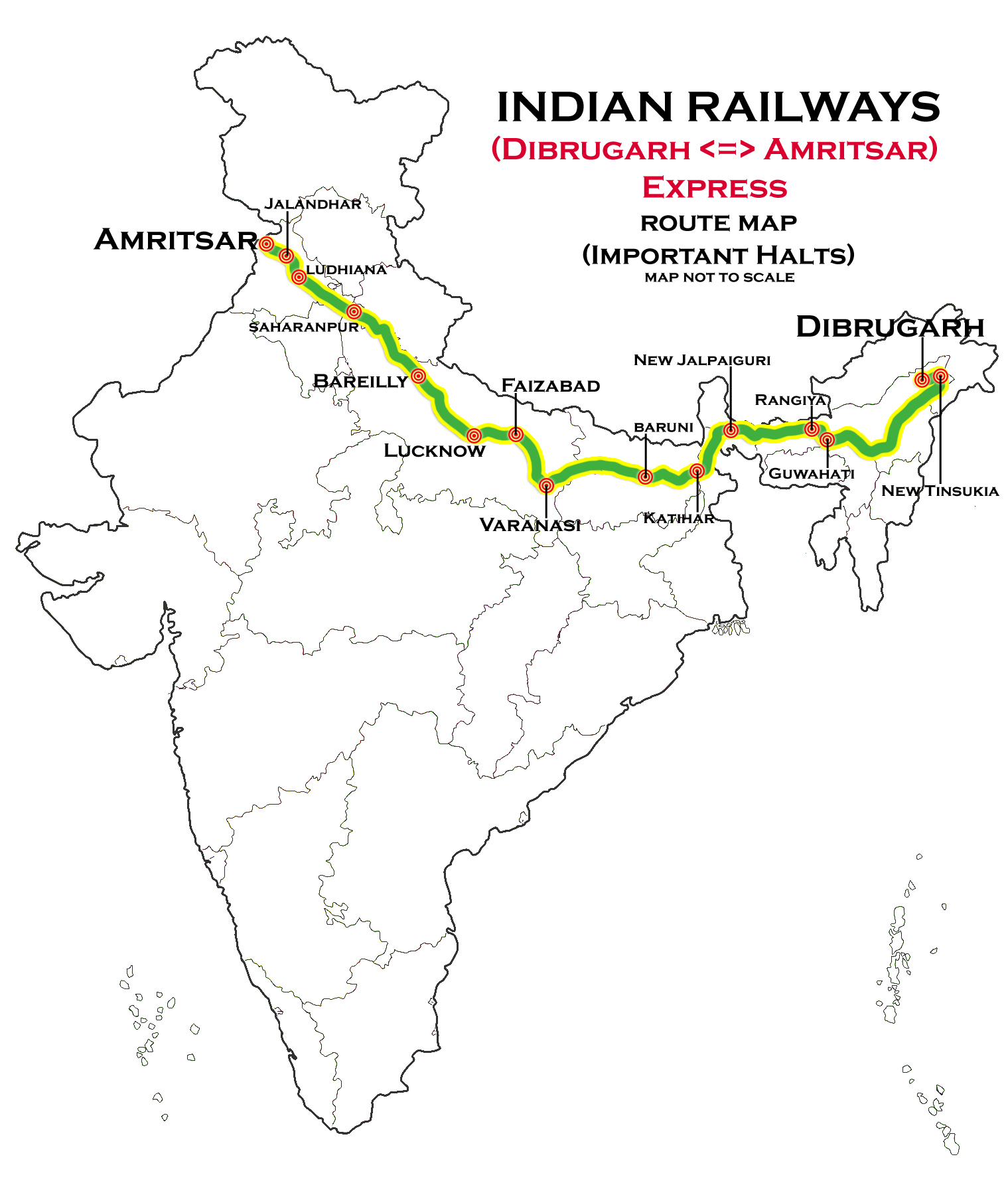 (Dibrugarh - Amritsar) Express Route map